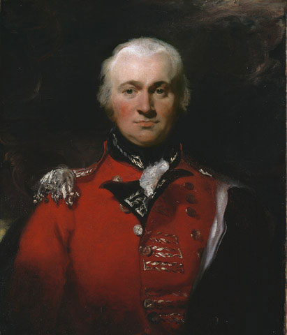 General Sir Robert Brownrigg, 1st Baronet GCB (1759 – 27 April 1833) was a British statesman and soldier. in 1810 by thomas ;awrence